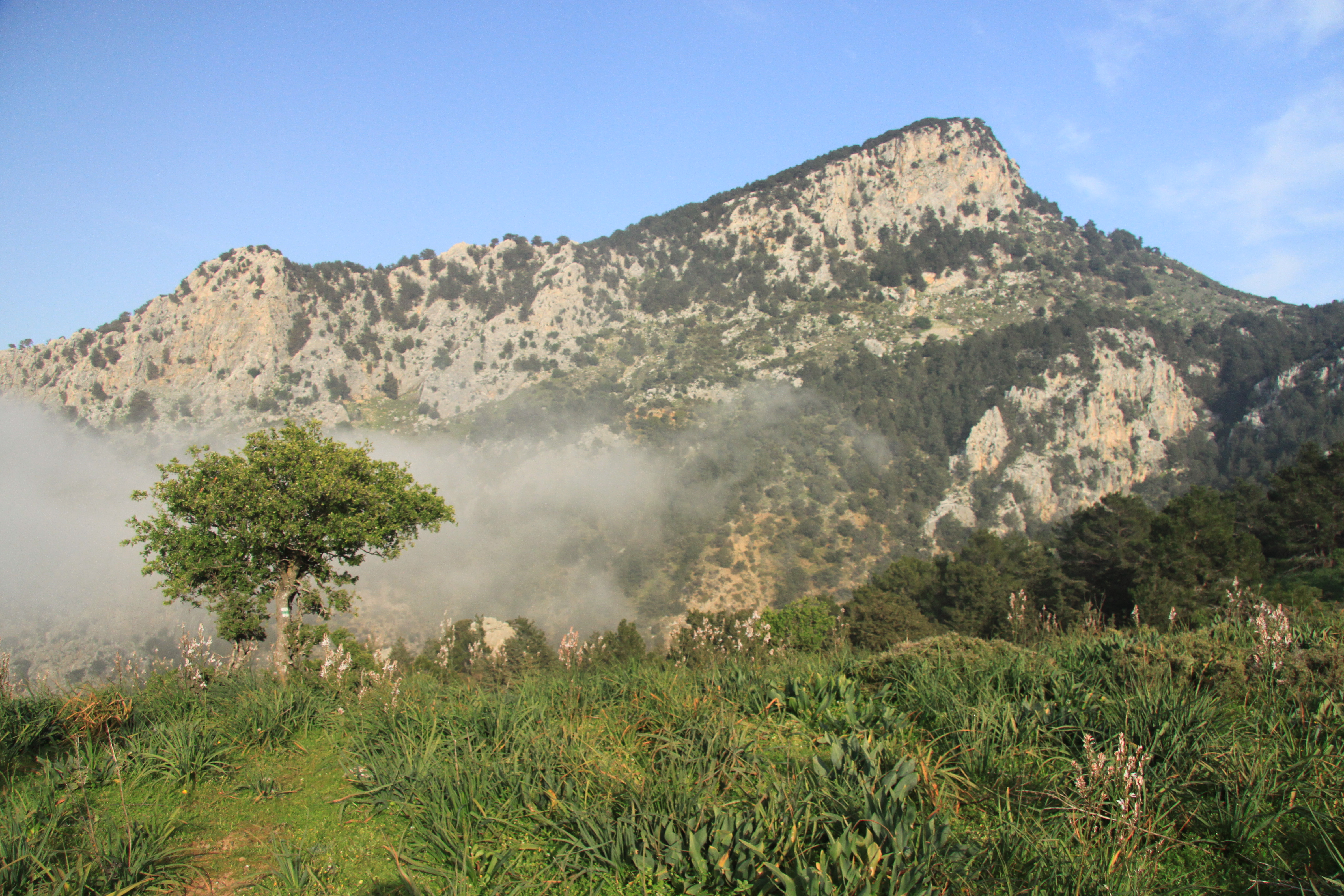 Breathtaking scenery near Lapta, Kyrenia, Northern Cyprus.